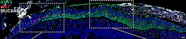 Fig. 1_ Distinct proliferating cells in the trachea, intrapulmonary airways and alveoli of COVID-19 patients. a) Proliferating basal cells are enriched in the area where severe damages occur. Note Ki67+ cells are limited to the immediate parabasal layer. =